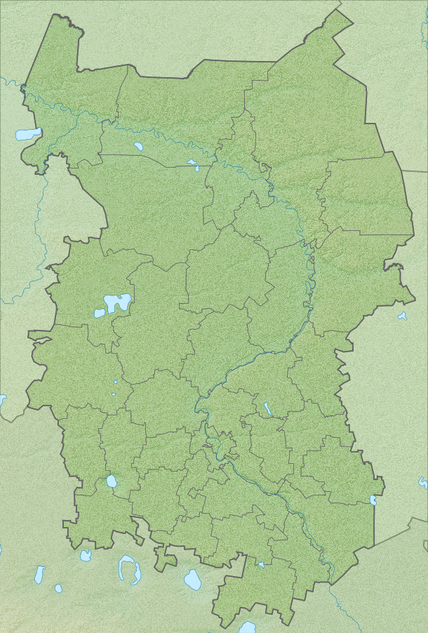 Relief map of Omsk Oblast — with rivers and lakes, and its districts' boundaries. In the Western Siberia region of northern Central Asian Russia. This map may be incomplete, and may contain errors. Don't rely solely on it for navigation.